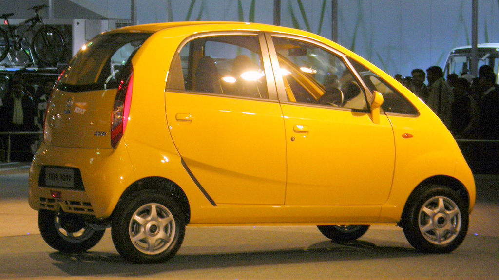 Tata Nano -- 2500$ Car Launched In Auto Expo 2008 in New Delhi